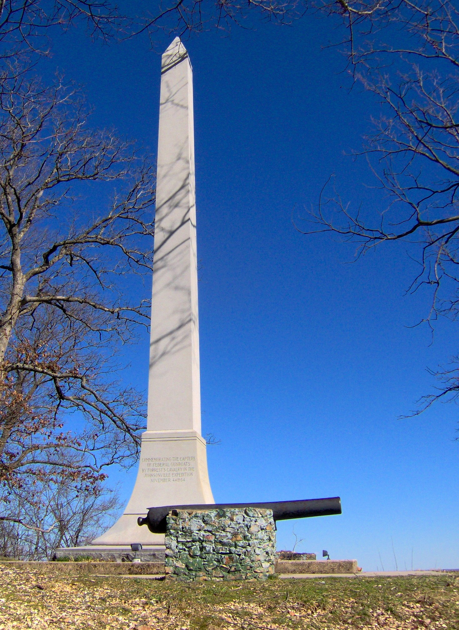 Memorial obelisk atop Pilot Knob at Nathan Bedford Forrest State Park in Benton County, Tennessee, in the southeastern United States. The obelisk, erected in 1930-1931, has engravings on each side which read: NATHAN BEDFORD FORREST (side 1) COMMEMORATING THE CAPTURE OF FEDERAL GUNBOATS BY FORREST'S CAVALRY DURING THE JOHNSONVILLE EXPEDITION NOVEMBER 4, 1864 (side 2) ERECTED BY MONUMENT AND MEMORIAL COMMISSION AND DIVISION OF HISTORY STATE OF TENNESSEE 1930 (side 3) "FAITH IS THE DUTY OF THE HOUR." N.B. FORREST, MAJOR-GENERAL TO LIEUTENANT-GENERAL RICHARD TAYLOR, NOVEMBER 12, 1864. (side 4) The cannon at the base of the monument is aimed at the site of Old Johnsonville, on the other side of the river.